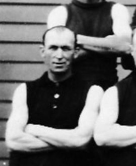 Photograph of Les Oram in 1916